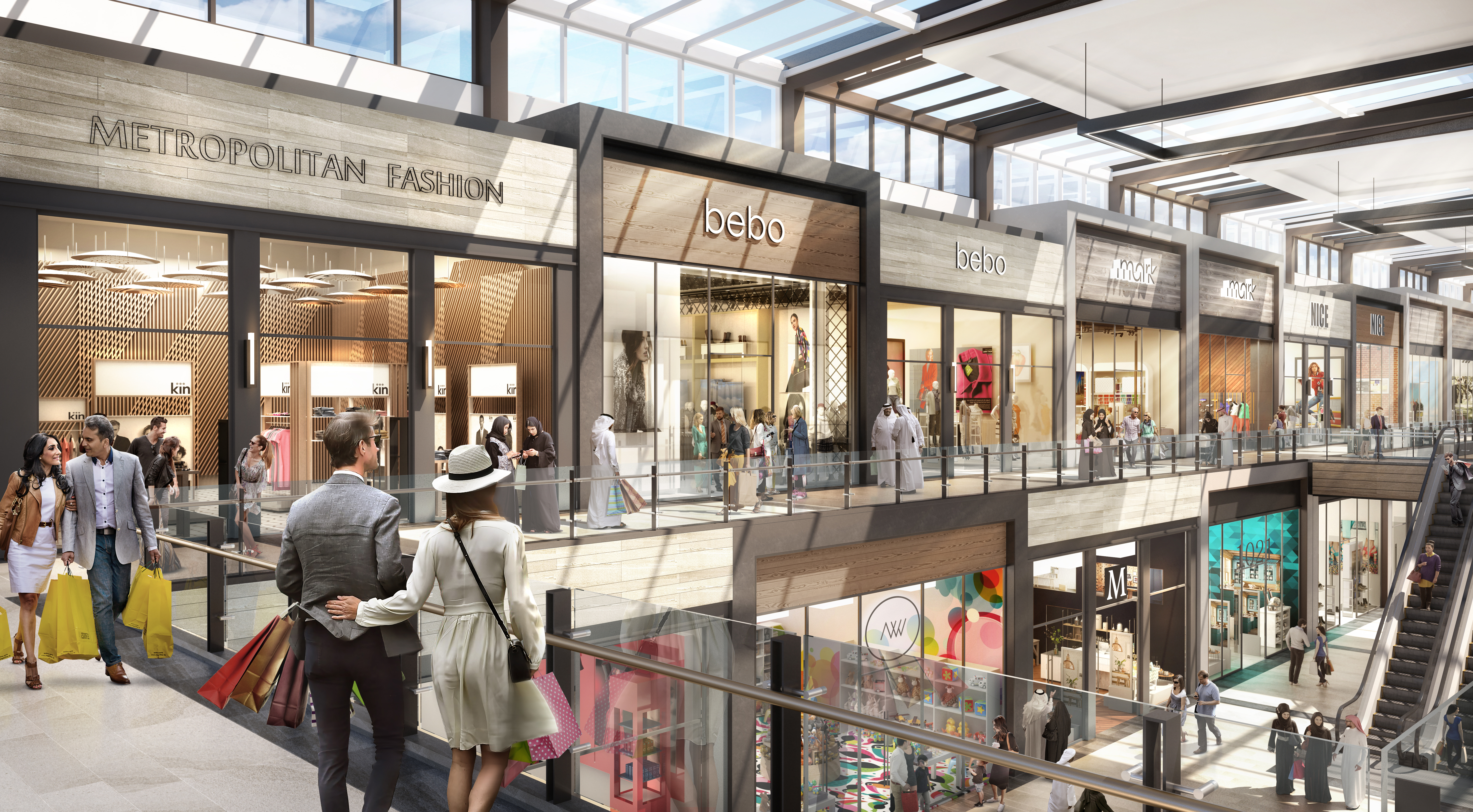 Representation of the Dubai Hills Mall Arcade